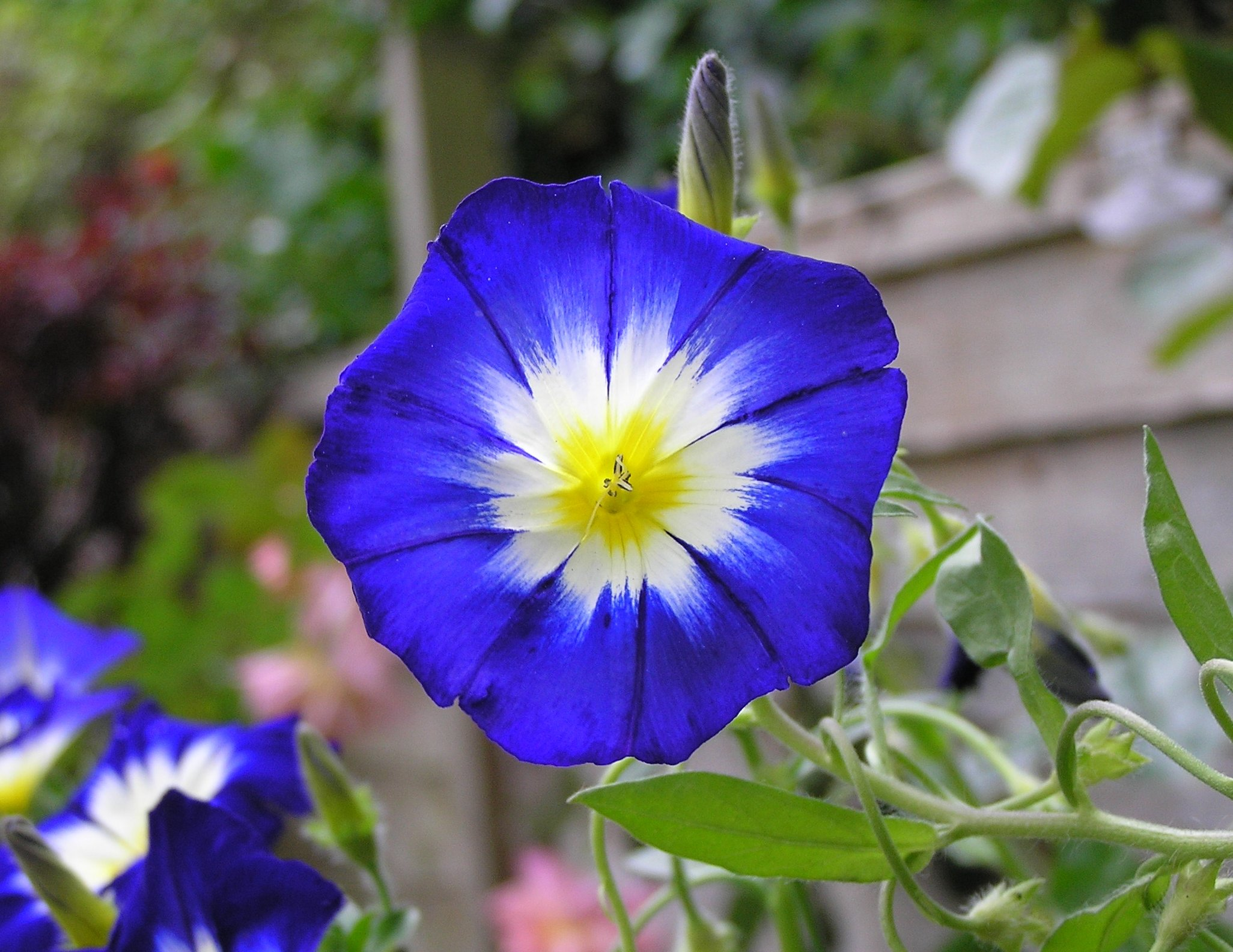 Convolvulus tricolor - Dwarf Morning Glory Image taken in United Kingdom, summer 2007 Cultivated in hanging basket.